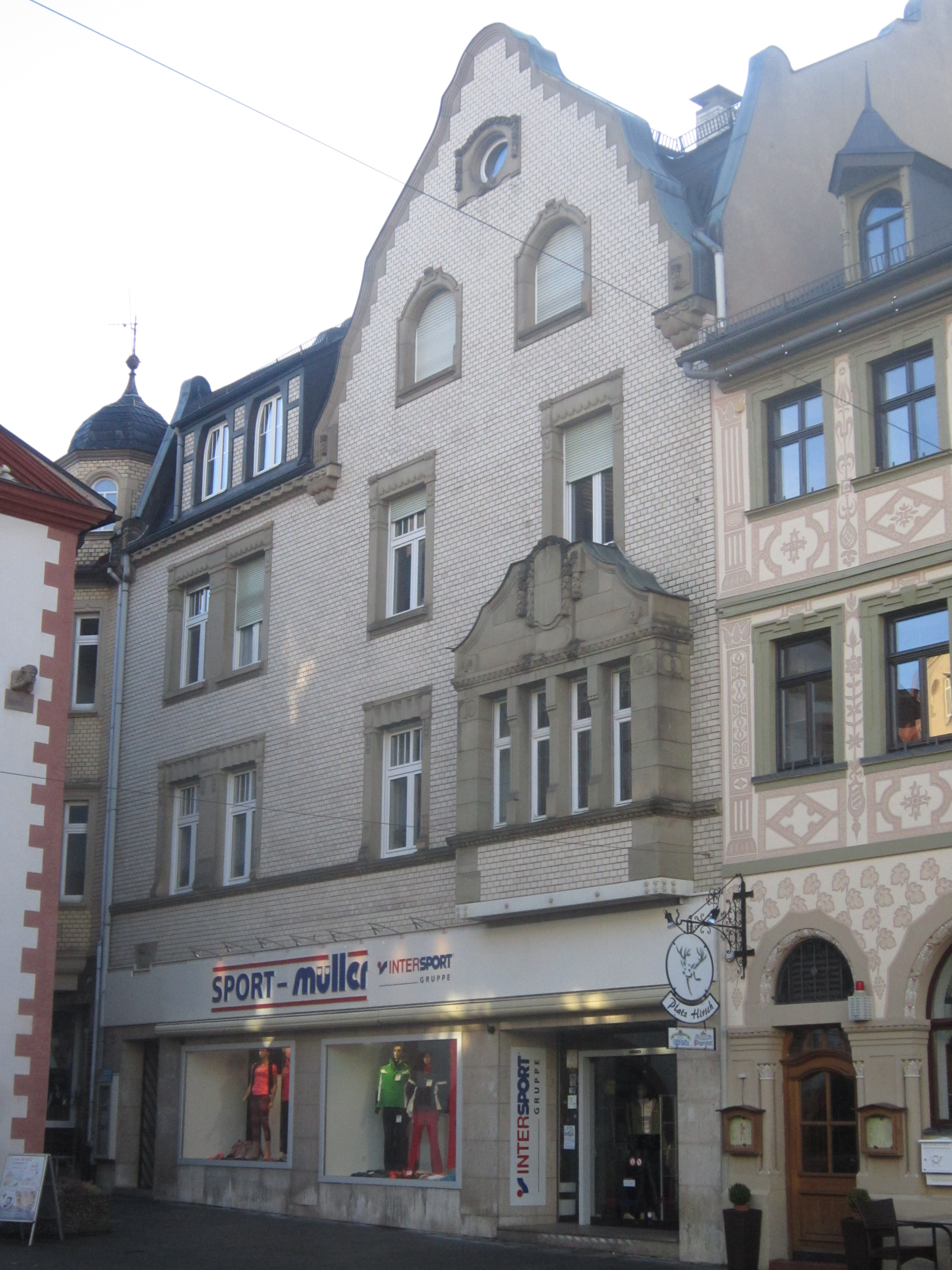 Building in the German spa town of Bad Kissingen in Lower Franconia (Bavaria) (Address: Marktplatz 15).